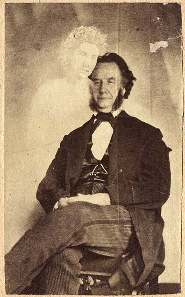 An image of Moses A. Dow, Editor of Waverley Magazine, with the spirit of Mabel Warren.